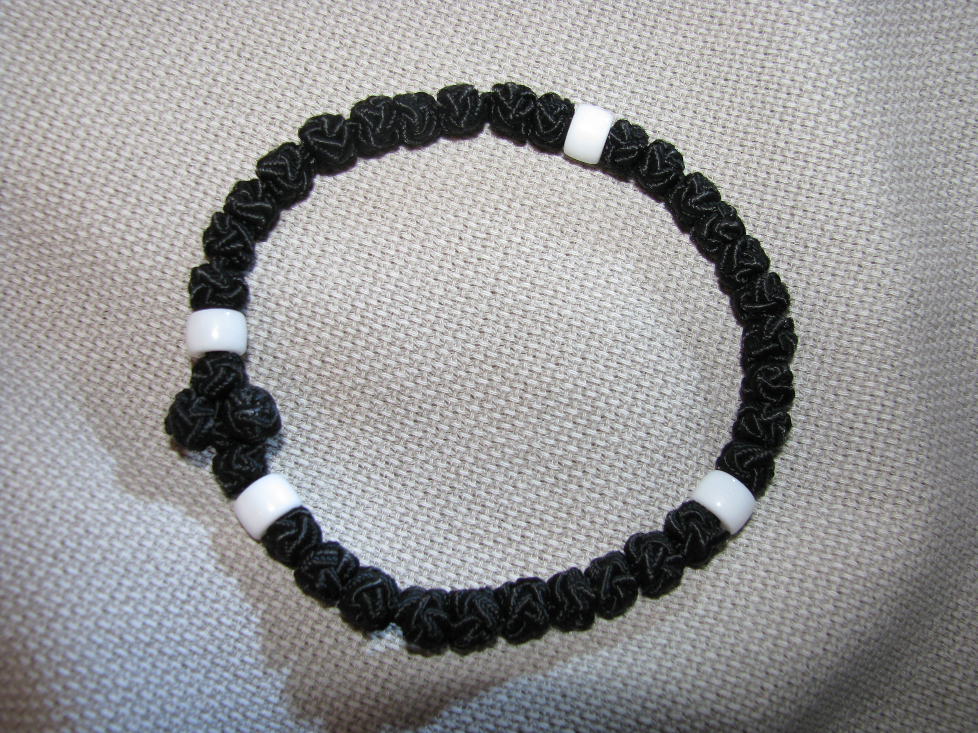 Orthodox prayer rope - bracelet